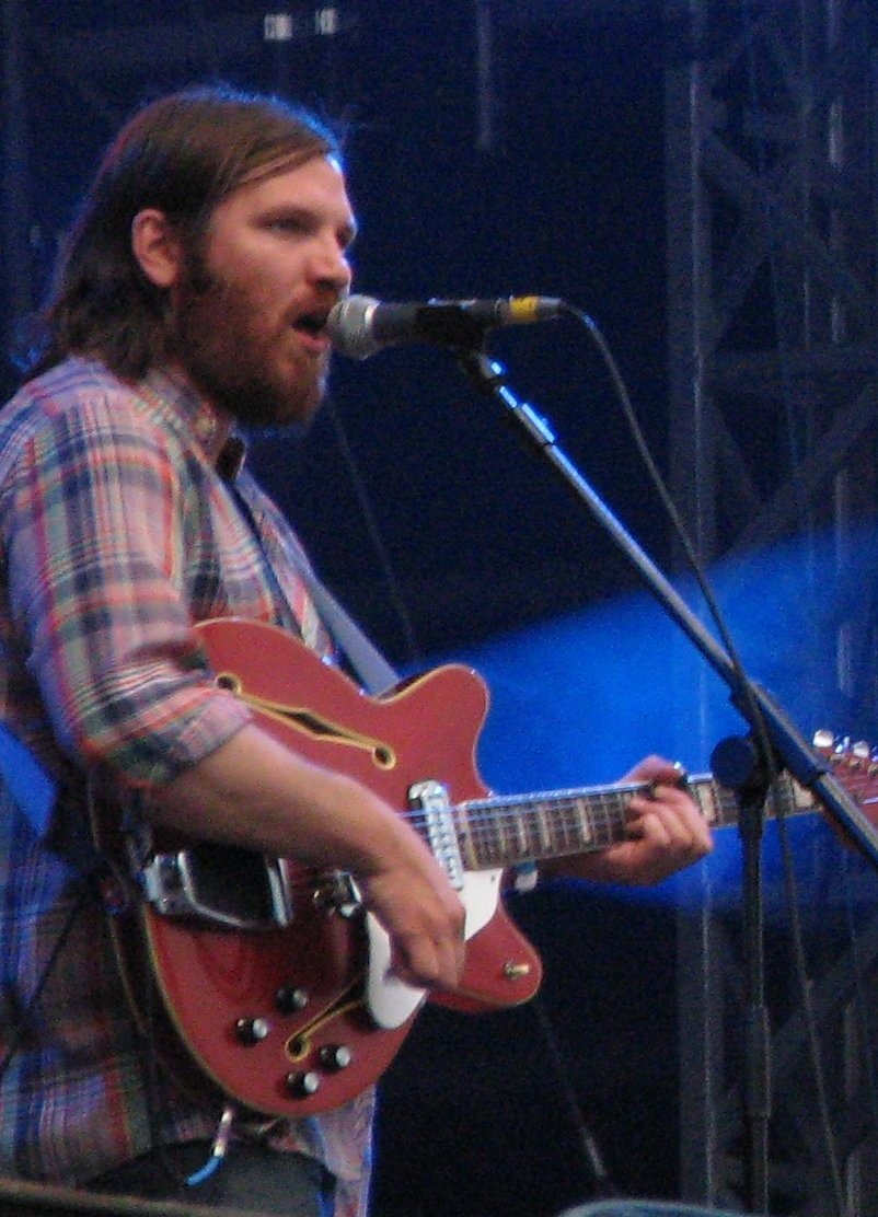 Hard Rock Calling 155 - The Fleet Foxes With scarves of red tied round their throats, to keep their heads from falling in the snow...